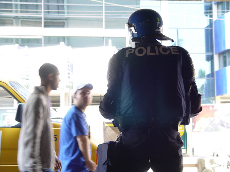 G8 at Evian and effects at Geneva in june 2003. Policeman defending "Hotel des Finances" (Photo by Yvan Agnesina).